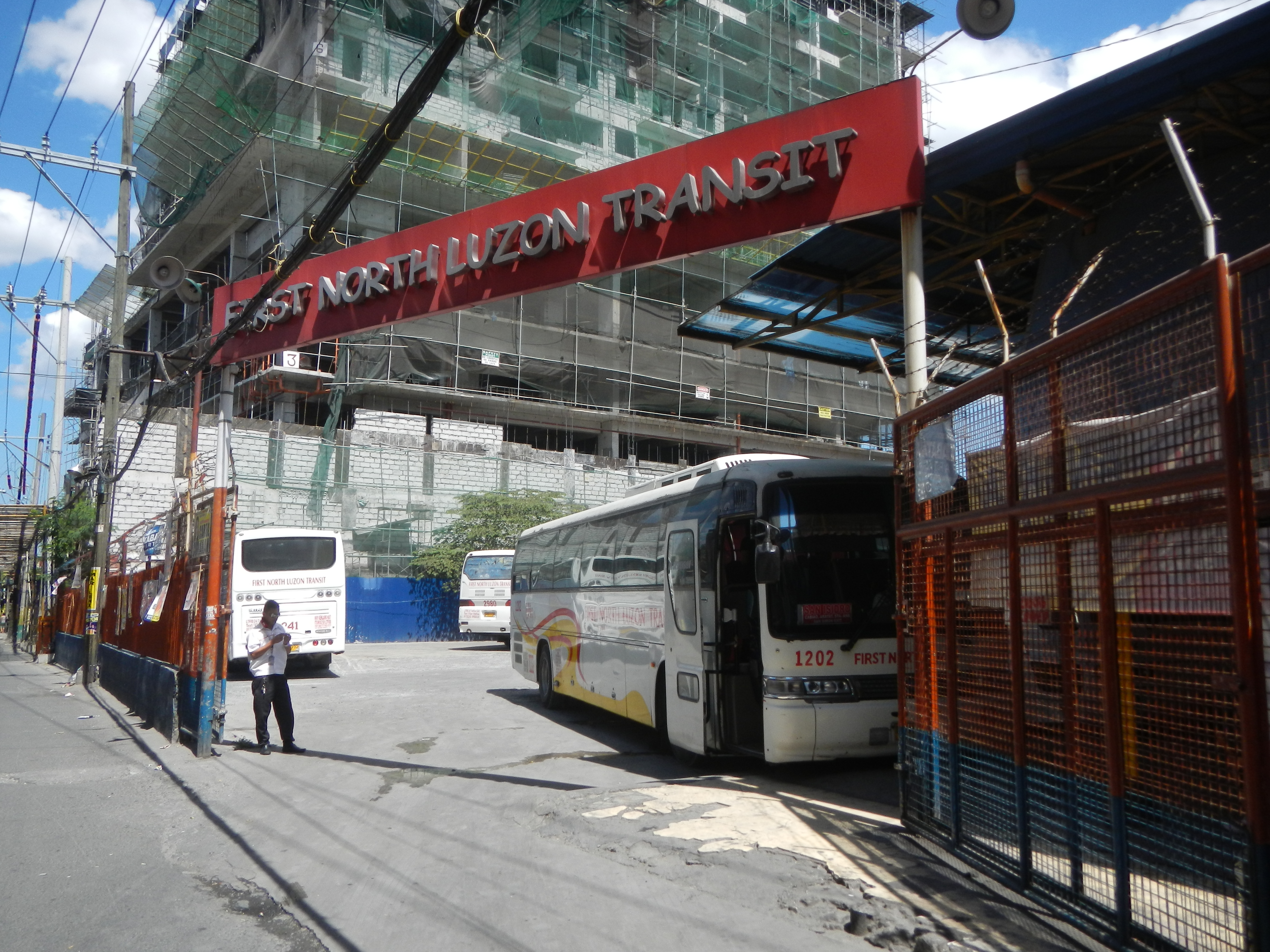 Rizal Avenue Extension (Light Rail Transit Authority, Caloocan City) in Legislative districts of Caloocan District 2, Barangays of Caloocan Barangay 91, Zone 8, District II, in front of Barangays 68 & 71, Zone 7, 12th Avenue West, District II, 12th Avenue West, Grace Park, 10th, 11th & 12th Avenues, (Caloocan City South), Caloocan City, Buildings in Caloocan City (along the List of roads in Metro Manila, along M. H. Del Pilar Street, 10th Avenue corner Rizal Avenue Extension, Grace Park, beside 11th Avenue, PLDT, Caloocan City Branch, St. Eugene De Mazenod Avenue (formerly 11th Avenue) (Grace Park) to Monumento LRT Station.